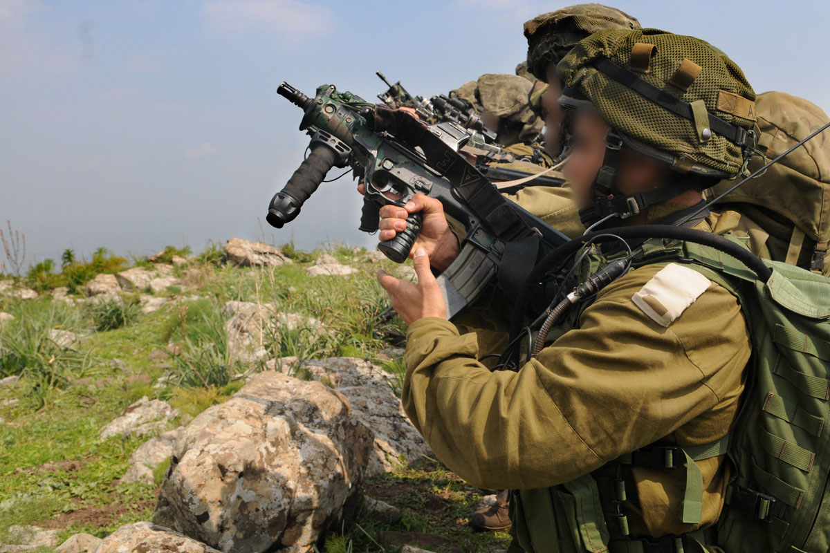 February 27, 2012 Last month, soldiers from the Elite Egot Unit took on their final test- after more than a year of training, they conducted a week of exercise in which they put all of their studying into action. During this week, the soldiers demonstrated their abilities in camouflage, fighting in urban warfare style and much more. The Egoz Reconnaissance Unit is an elite special forces unit of the IDF that specializes in guerrilla warfare. The Egoz Battalion is part of the Northern Command's Golani Brigade. The Israel Defense Forces Facebook The Israel Defense Forces blog Follow us on Twitter